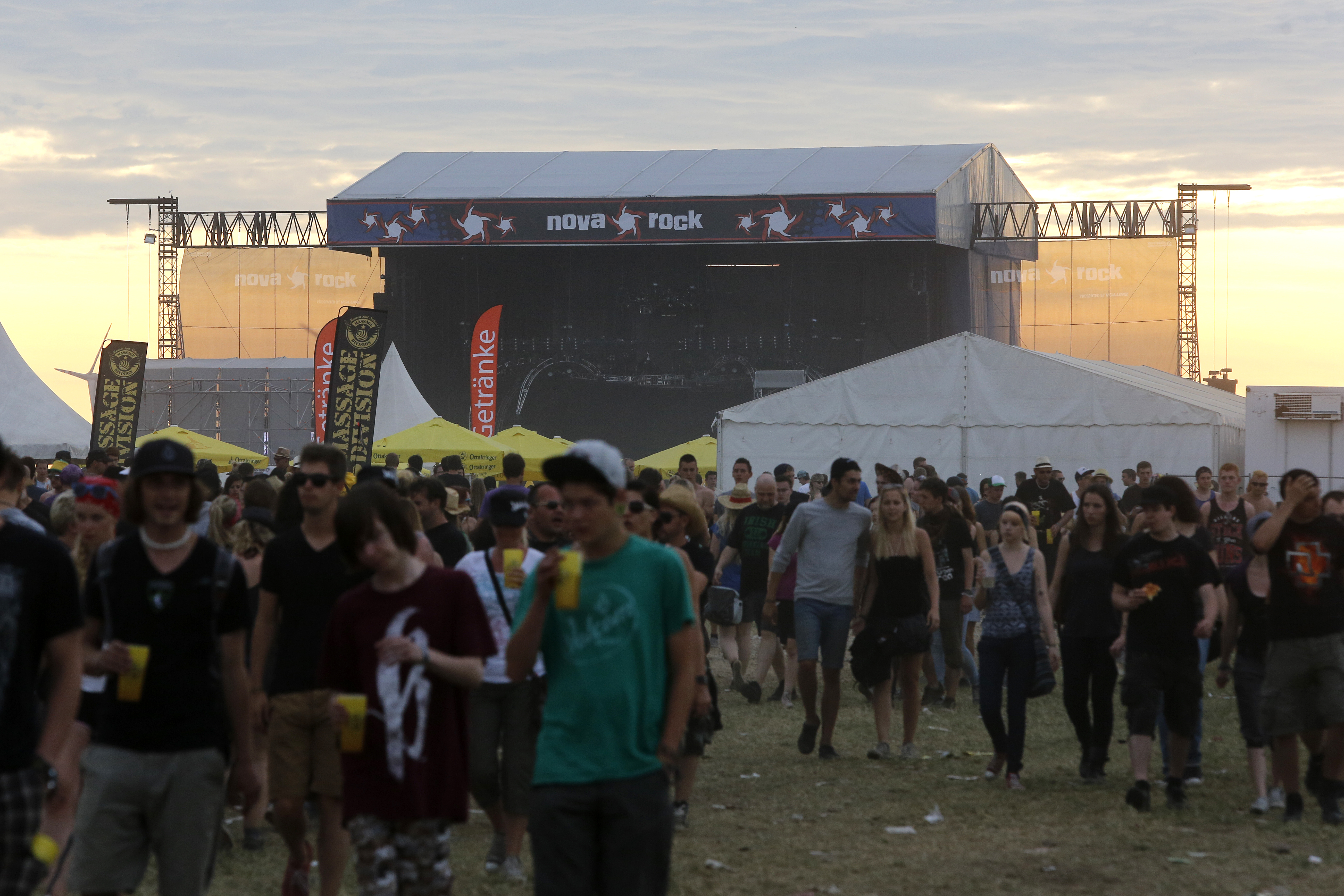 The biggest stage, the Blue-Stage of Nova Rock-Festival 2013 near Nickelsdorf (Austria).